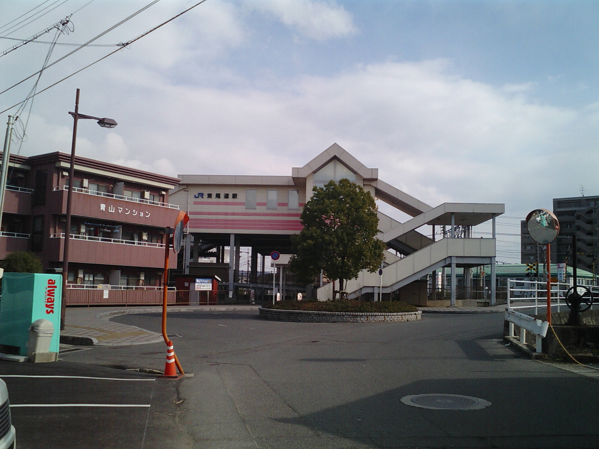 The north entrance of Higashi-Onomichi Station